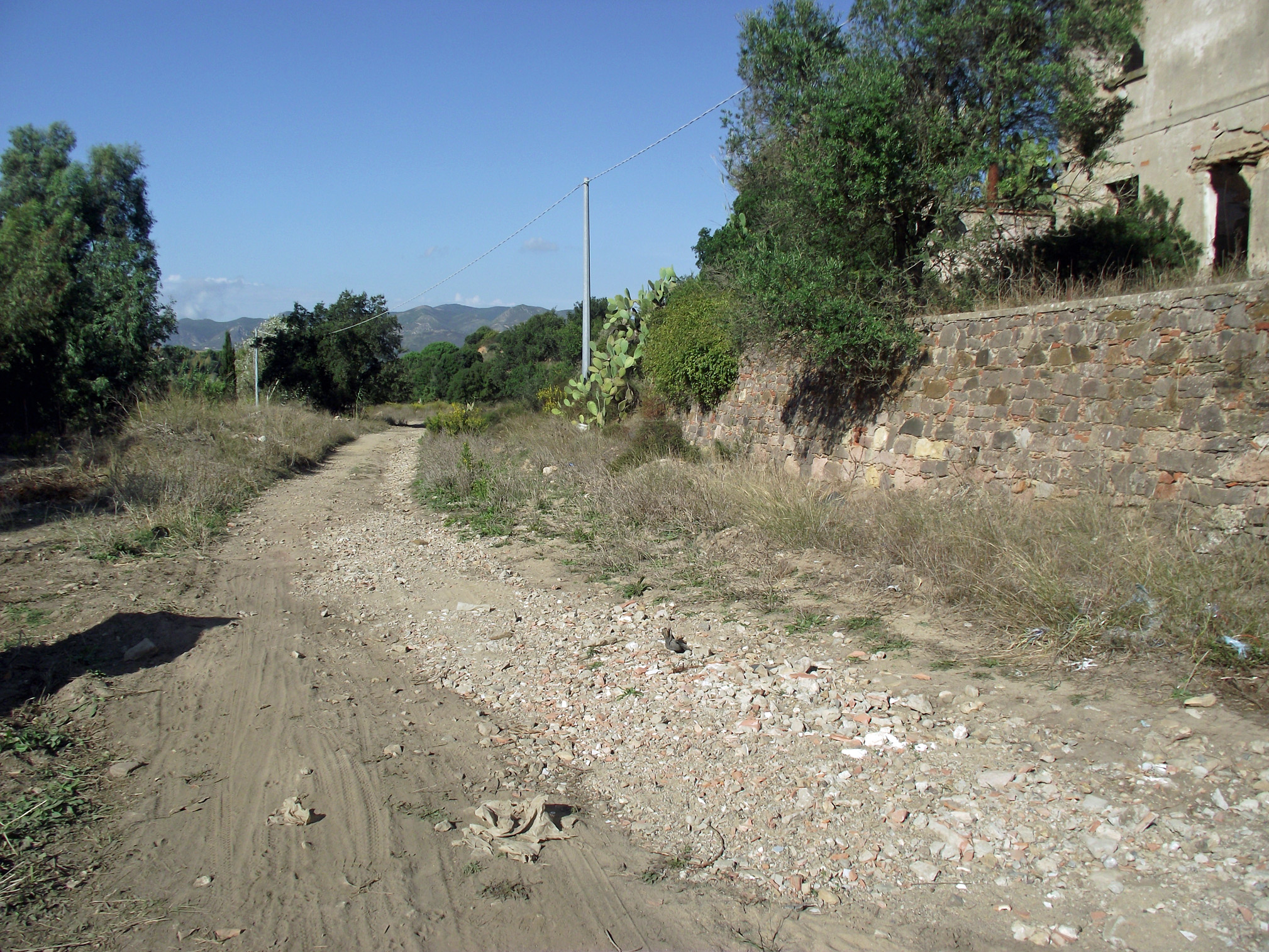 The area where there were the tracks of the former train station of Bacu Abis, Carbonia, Sardinia, Italy